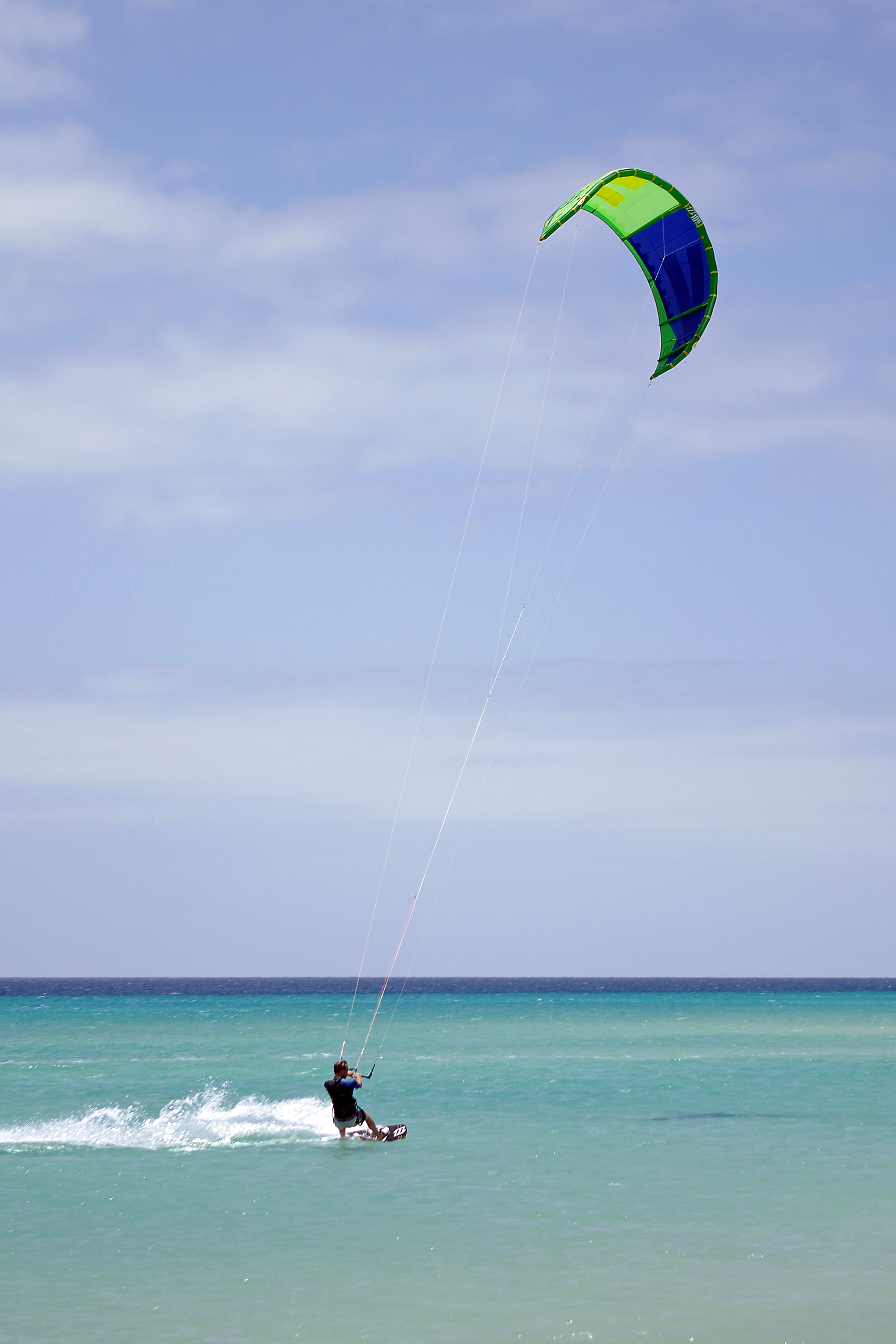 Kitesurfing in Fuerteventura (Sotavento), Canary Islands